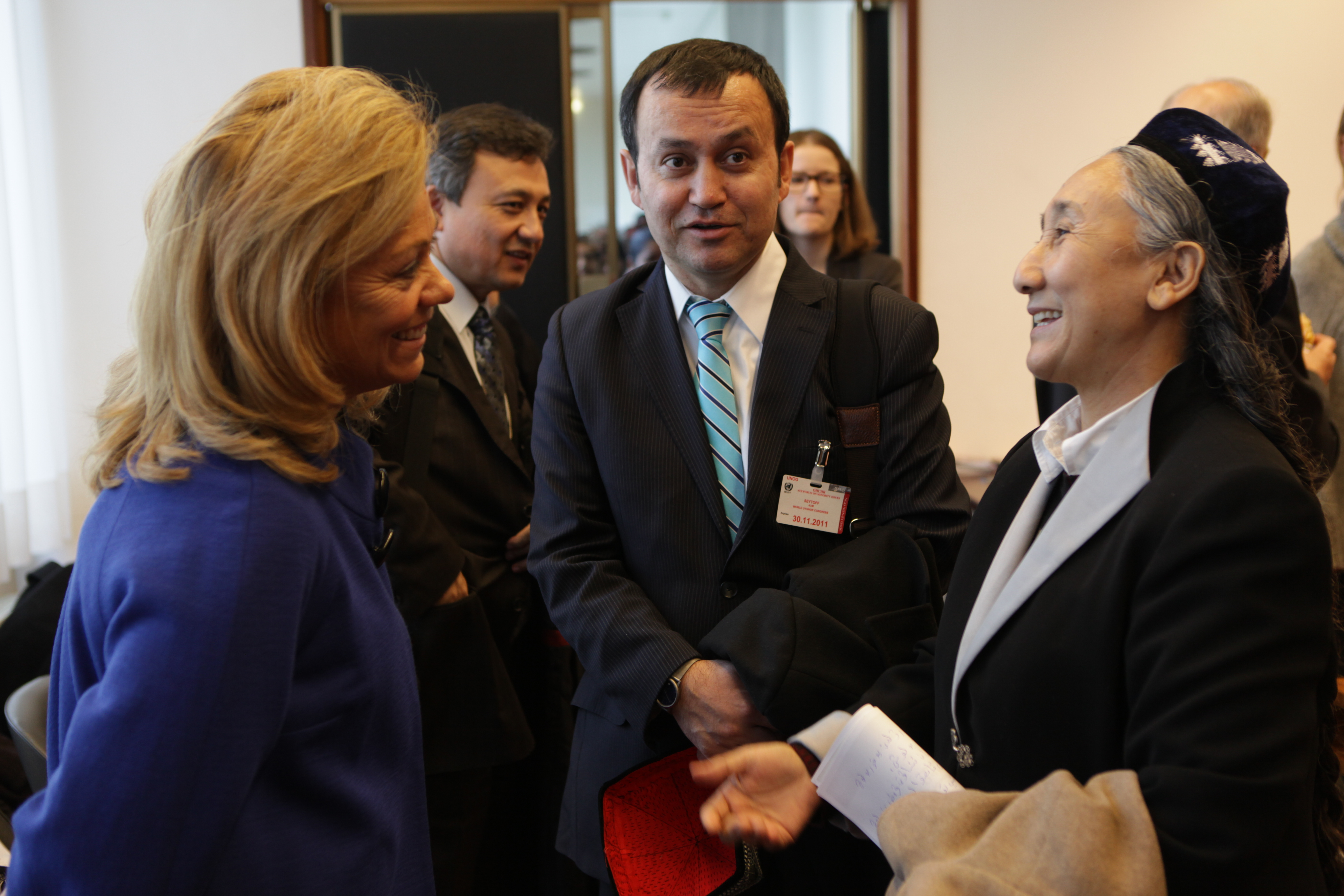 Ambassador Eileen Chamberlain Donahoe, U.S. Ambassador to the Human Rights Council, speaks with Rebiya Kadeer at the Forum on Minority Issues at the United Nations Office at Geneva.